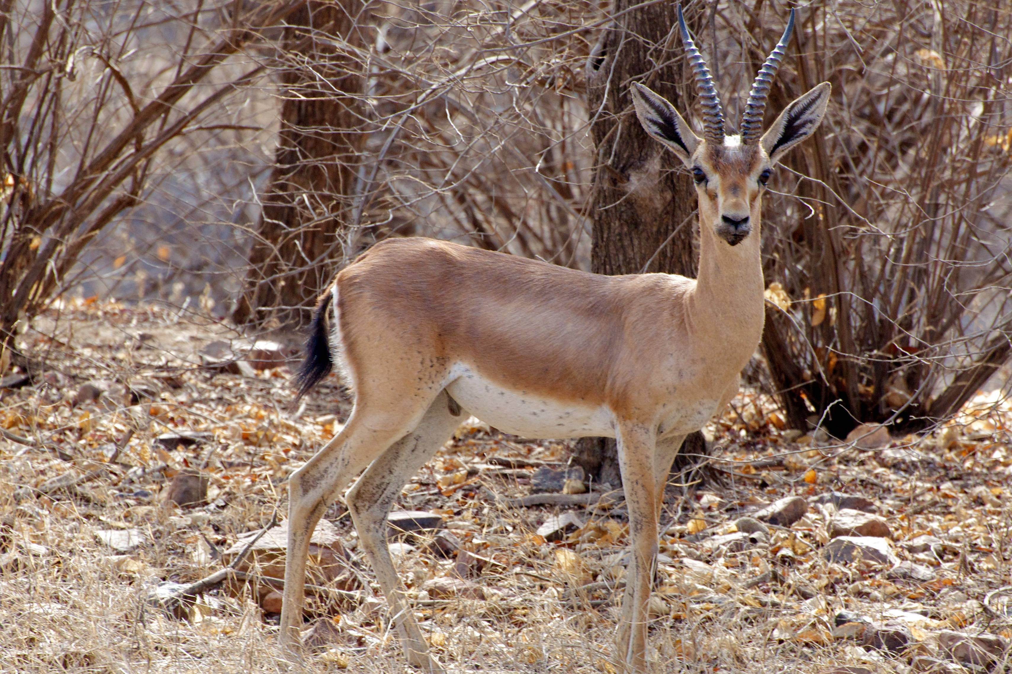 Chinkara (Gazella bennettii) at Ranthambore National Park, India